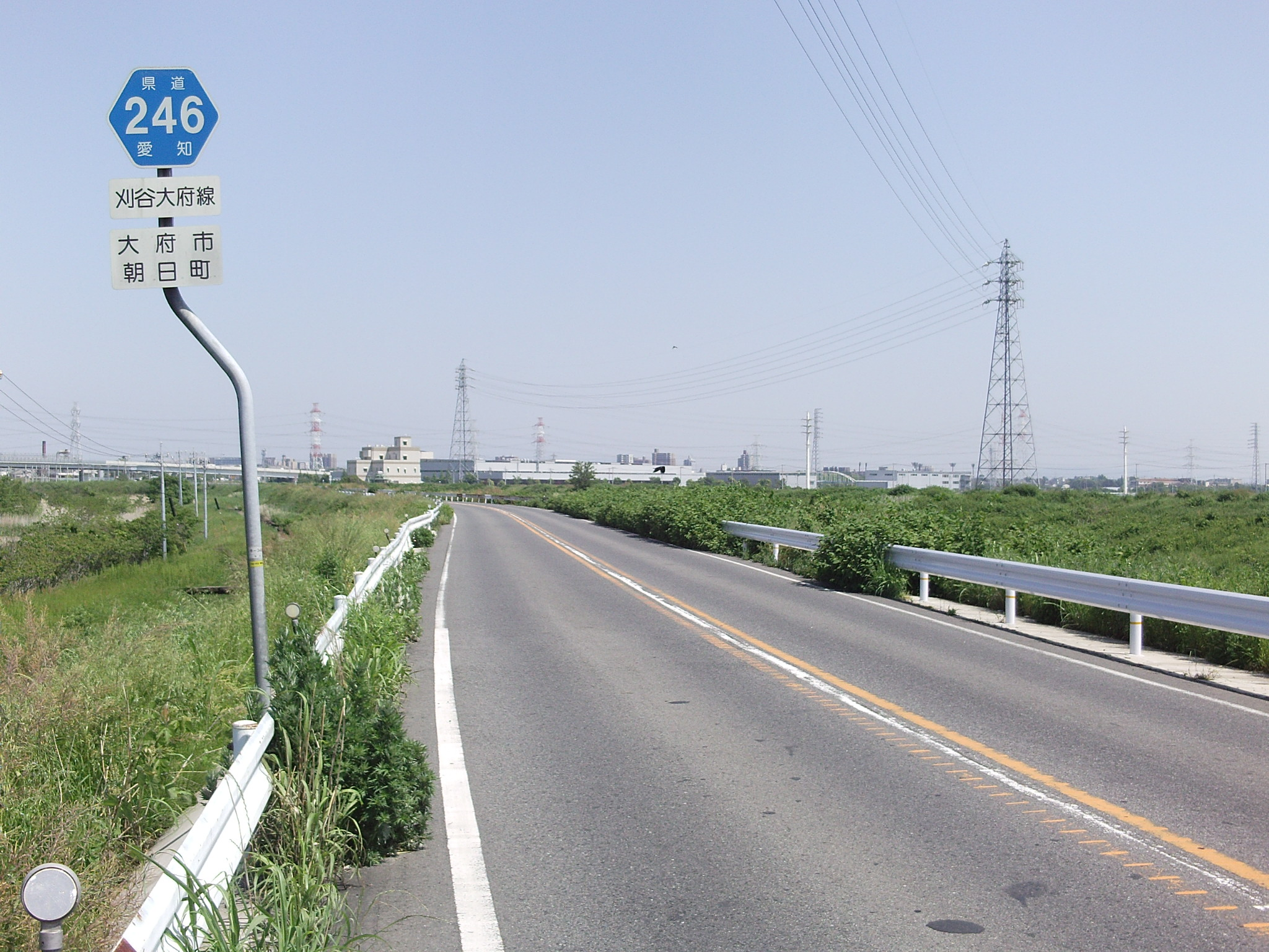 Aichi prefectural road No.246 in Asahicho 6-chome, Obu, Aichi.